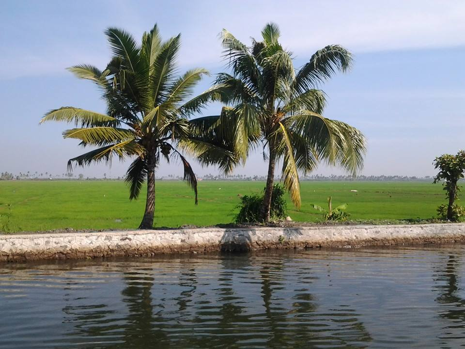 A view of the beautiful rice field at Kuttanadu, once knoen as the rice bowl of Kerala. The field are below see level up to 1 to 3 meters. this type of Low Land Farming is a rare practice allover the world.